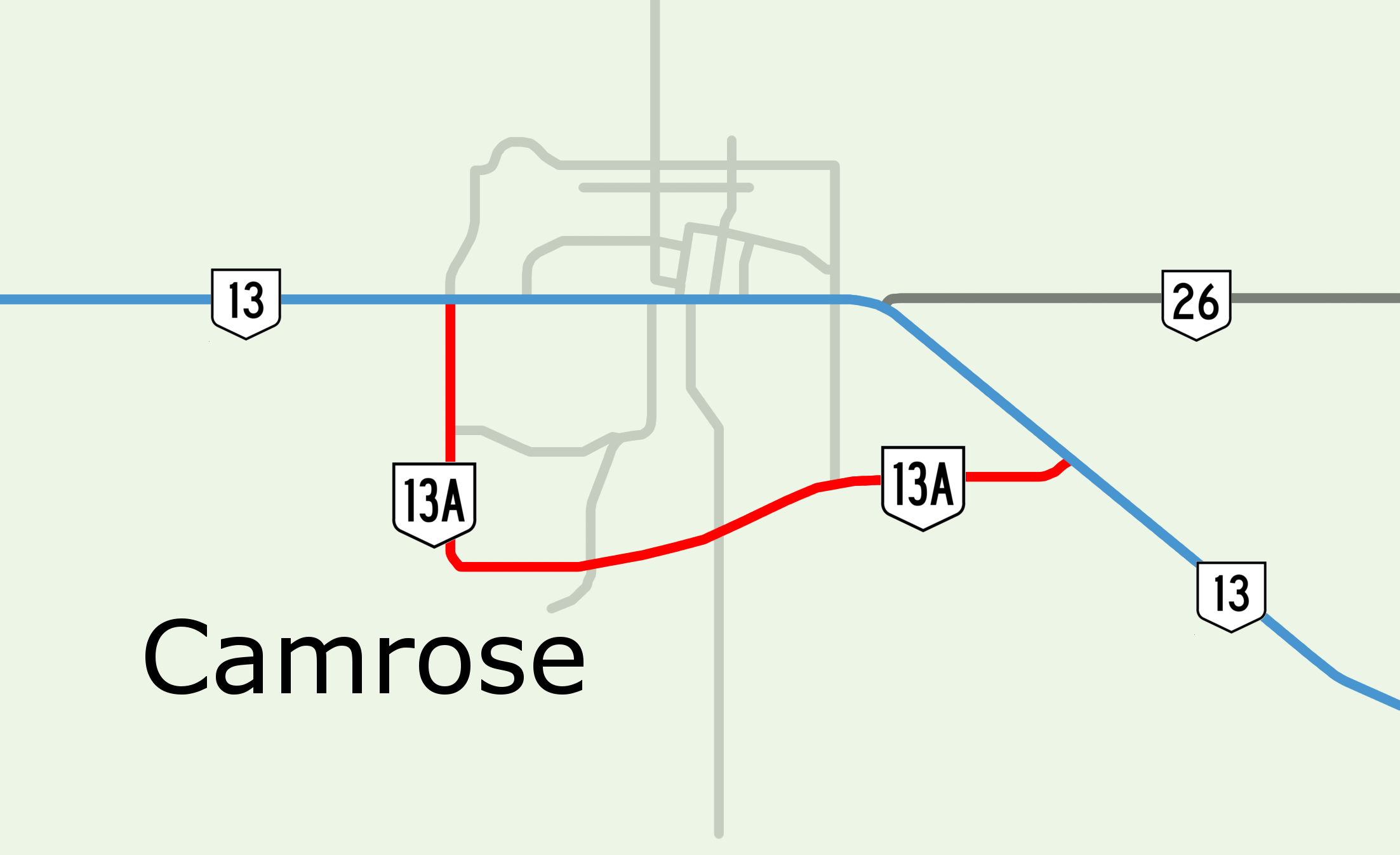 Alberta Highway 13A in Camrose - created with OpenStreetMap